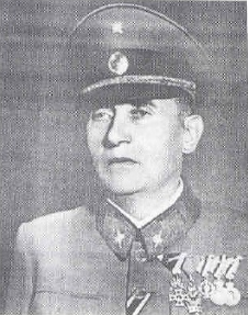 Croatian Colonel Emanuel Balley